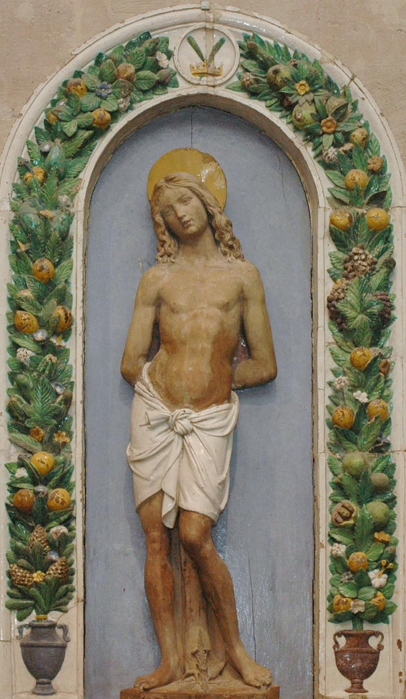 Italy, Florentine school. The frame and cornice are later additions.